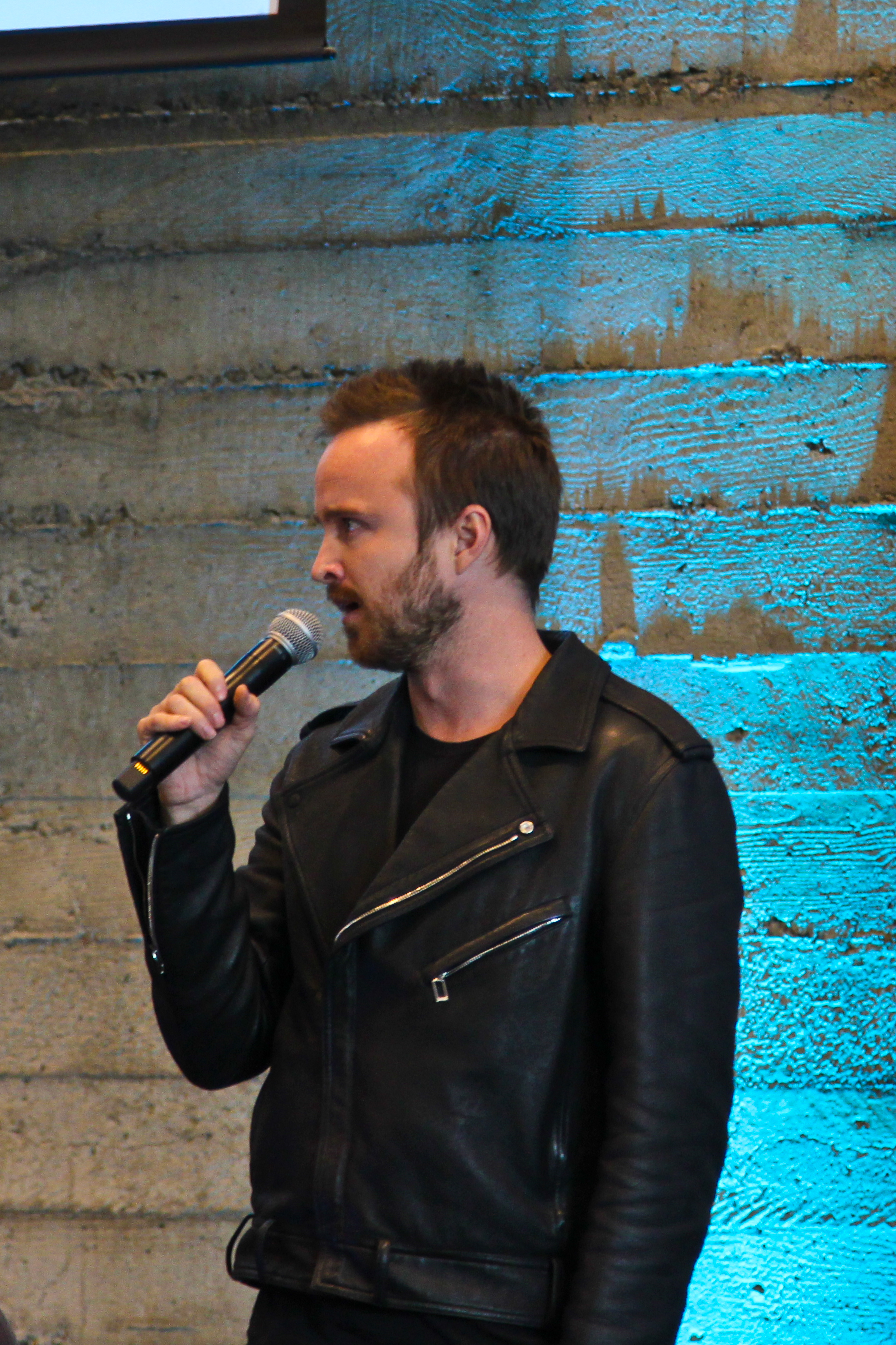 Aaron Paul @TwitterHQ